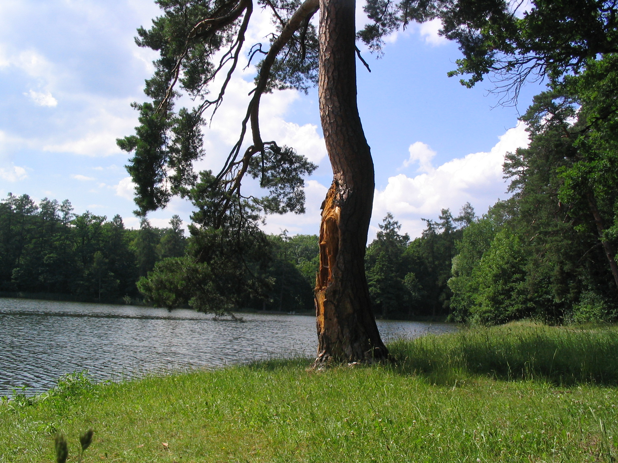 pond in the game reserve in Jabkenice, Czech Republic